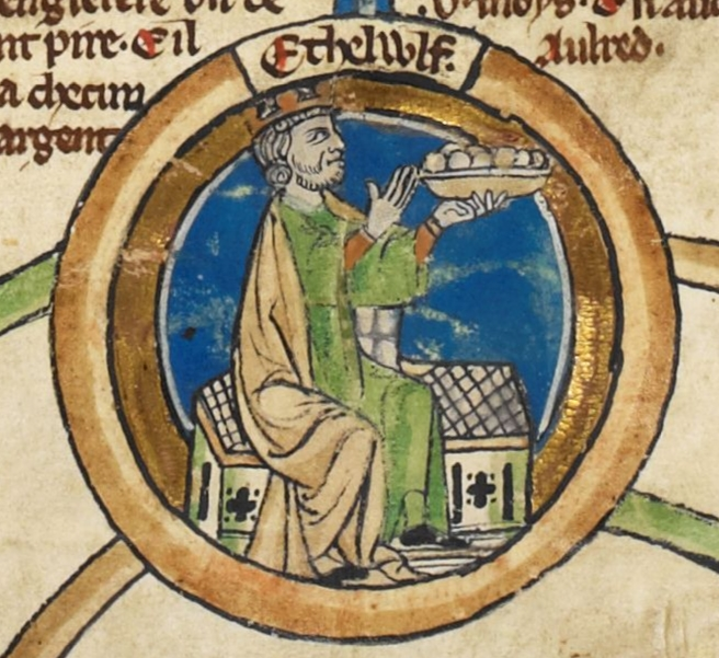 Miniature of King Æthelwulf of Wessex in the Genealogical roll of the kings of England